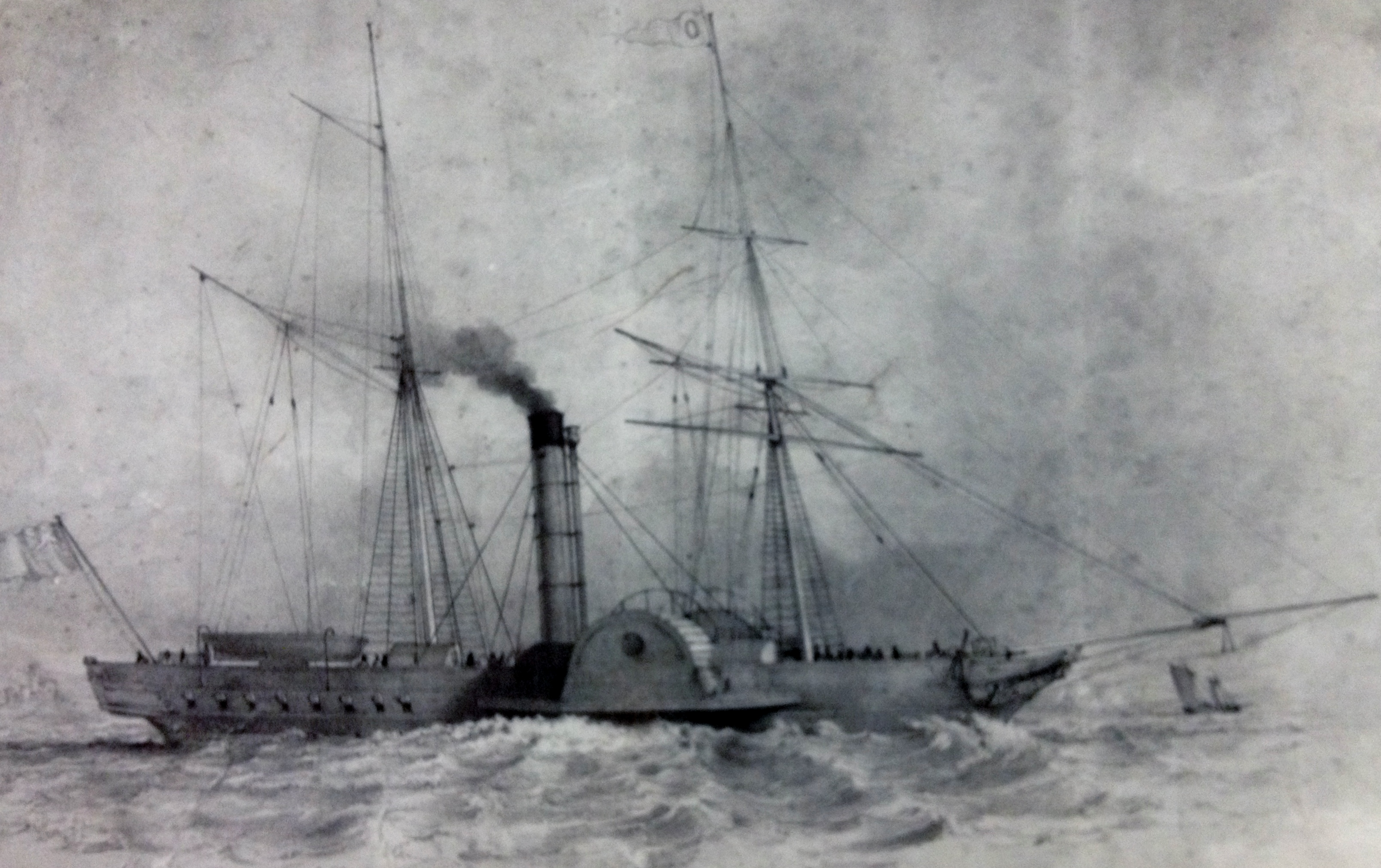 Depiction (artist unknown) of Isle of Man Steam Packet Company paddle steamer, King Orry.